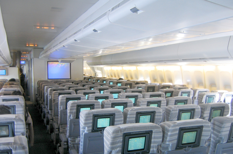 Japan Air Lines Boeing 747-400